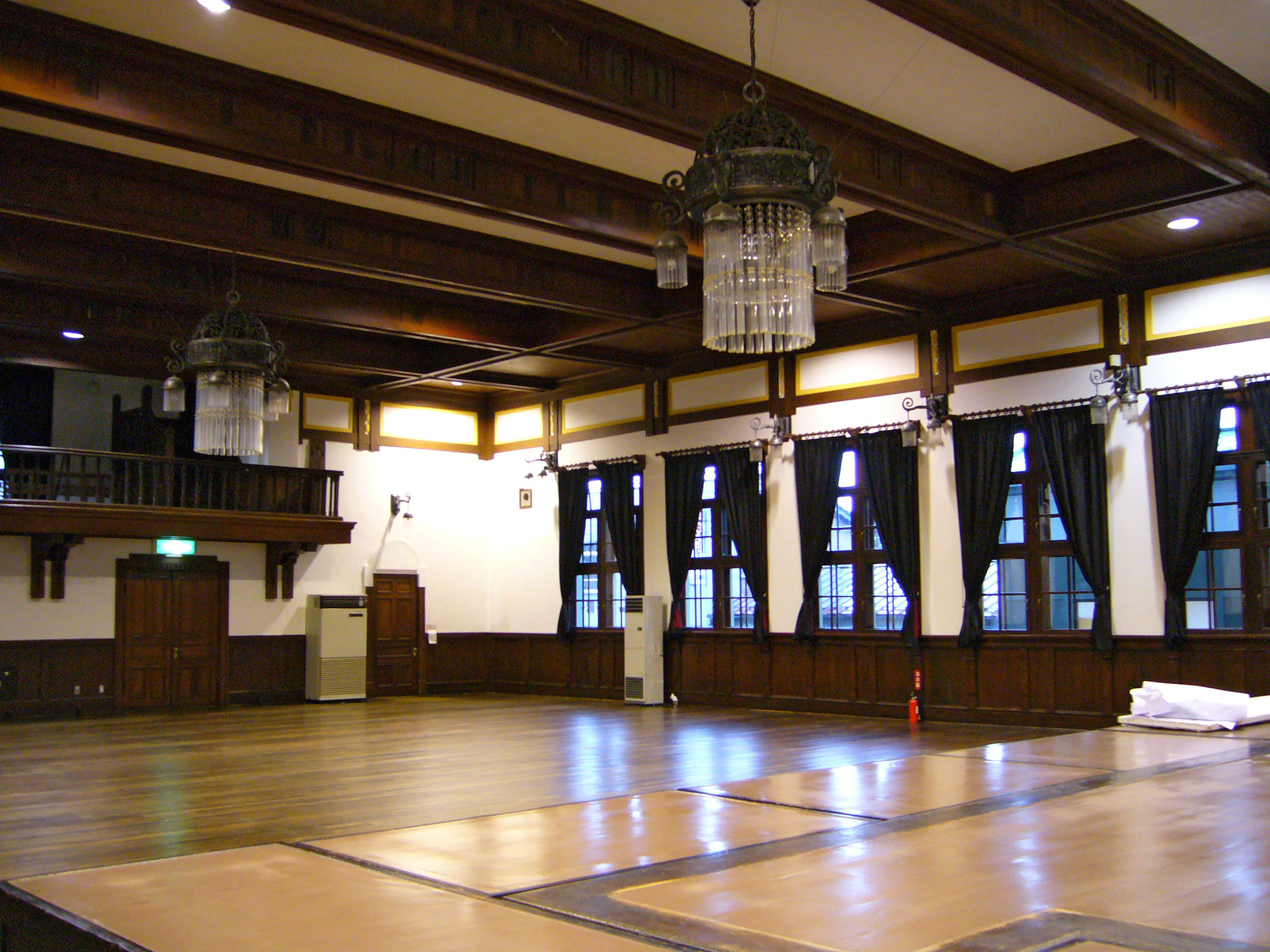 The Old Matsumoto Higher School in Matsumoto, Japan